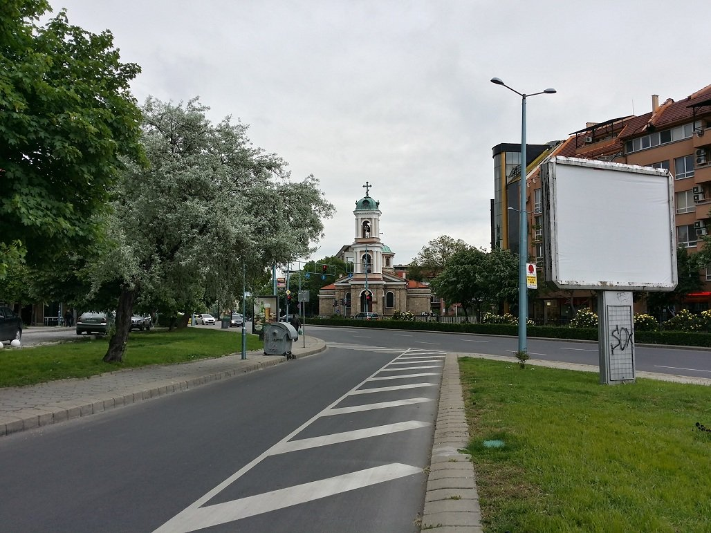 St Petka church, Plovdiv